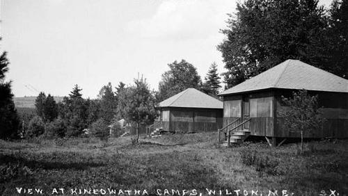 A view of the cabins at Kineowatha Camps, Wilton, Maine, circa 1920. Kineowatha began as a girls summer camp, founded in 1914 by Elizabeth Bass and Irving McColl. Glass negative. Courtesy of the Maine State Museum. Retouched by MarmadukePercy